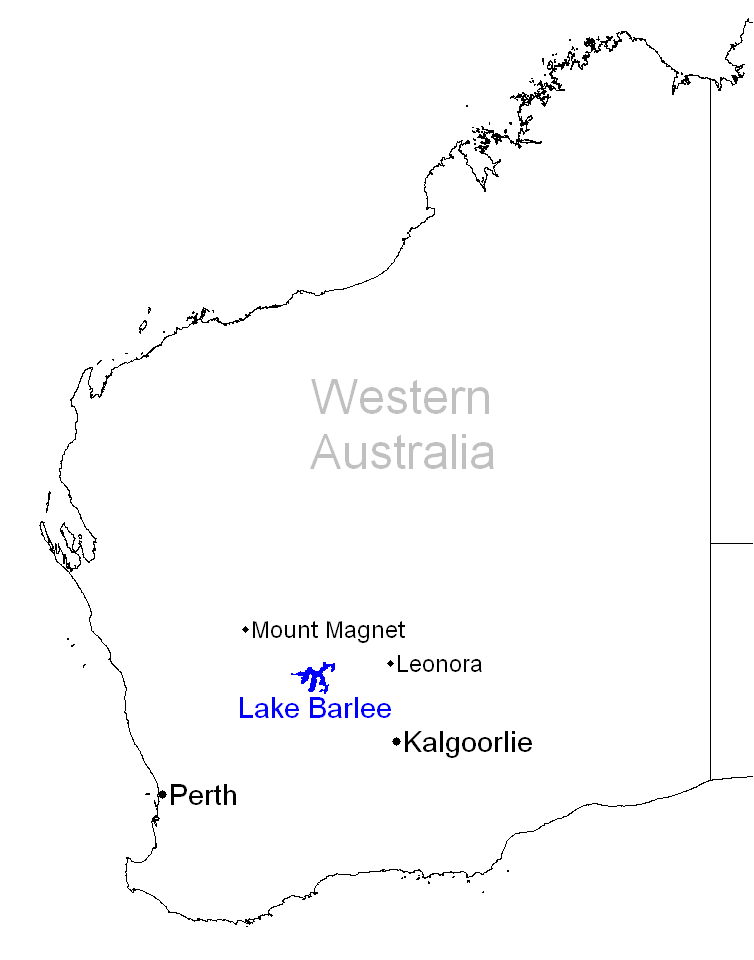 This image is a map of Western Australia, showing the location of Lake Barlee. It was created by the uploader.